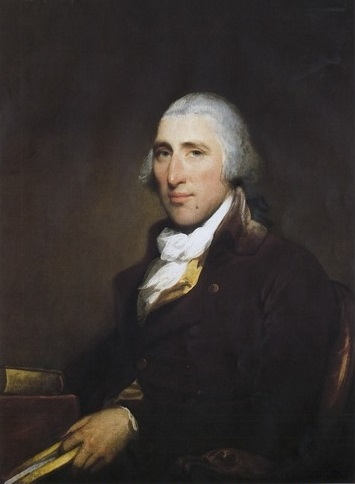 Thomas Tillotson, New York Congressman and Secretary of State